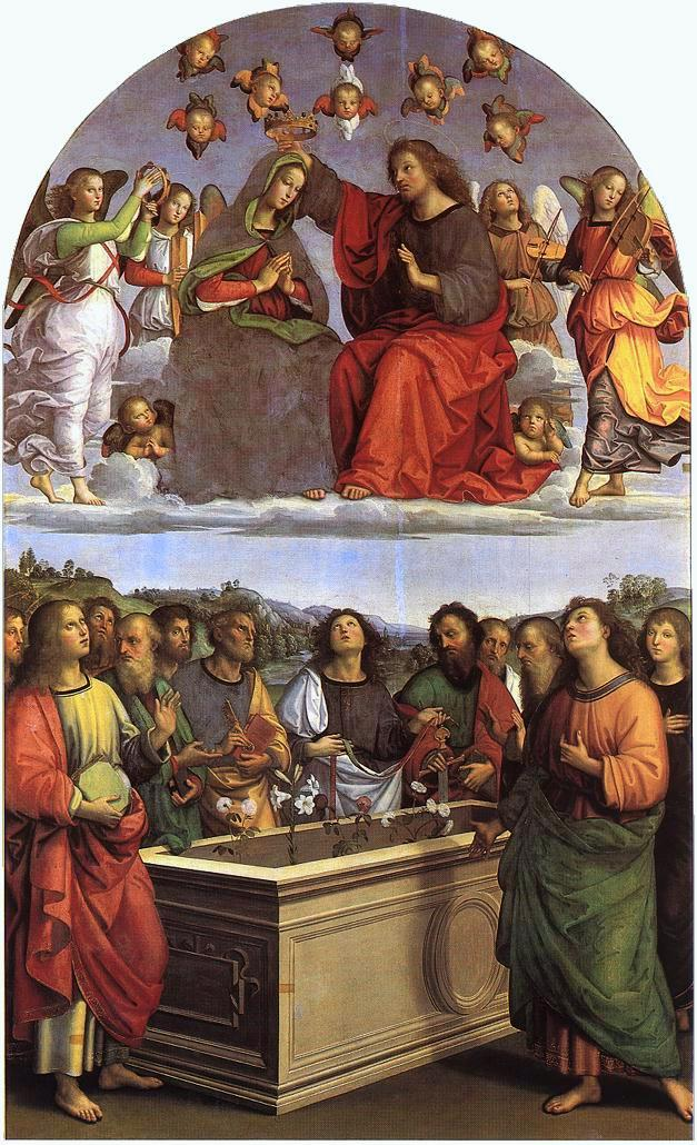 also known as the Oddi Altar-piece.